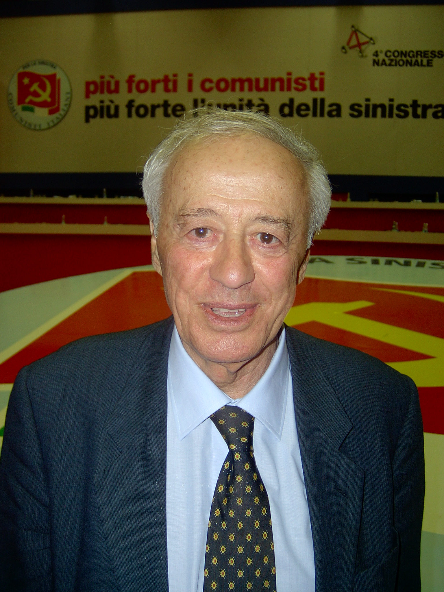 President of the Party of the Italian Communist